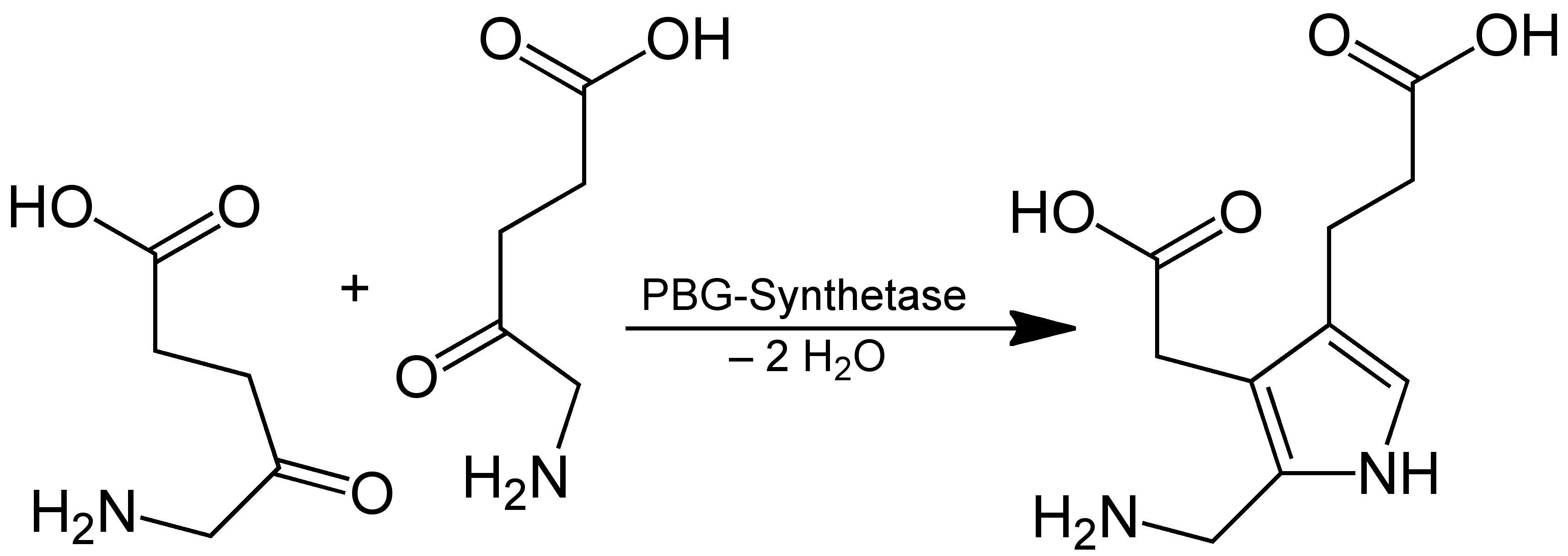 Porphobilinogen_Biosynthesis